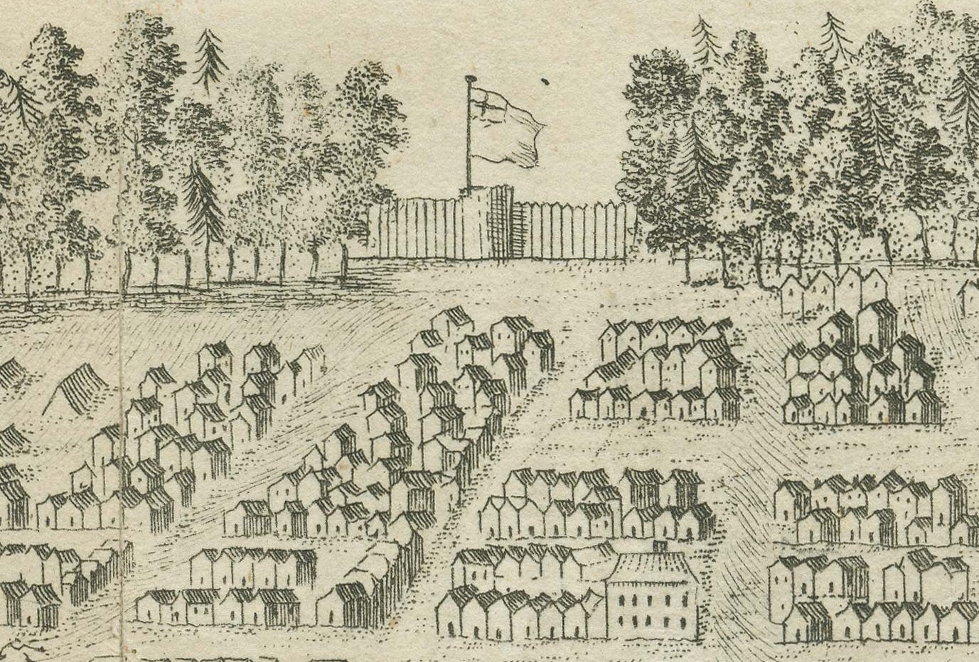 A view of Halifax from the topmasthead Halifax, Nova Scotia, Canada 1749